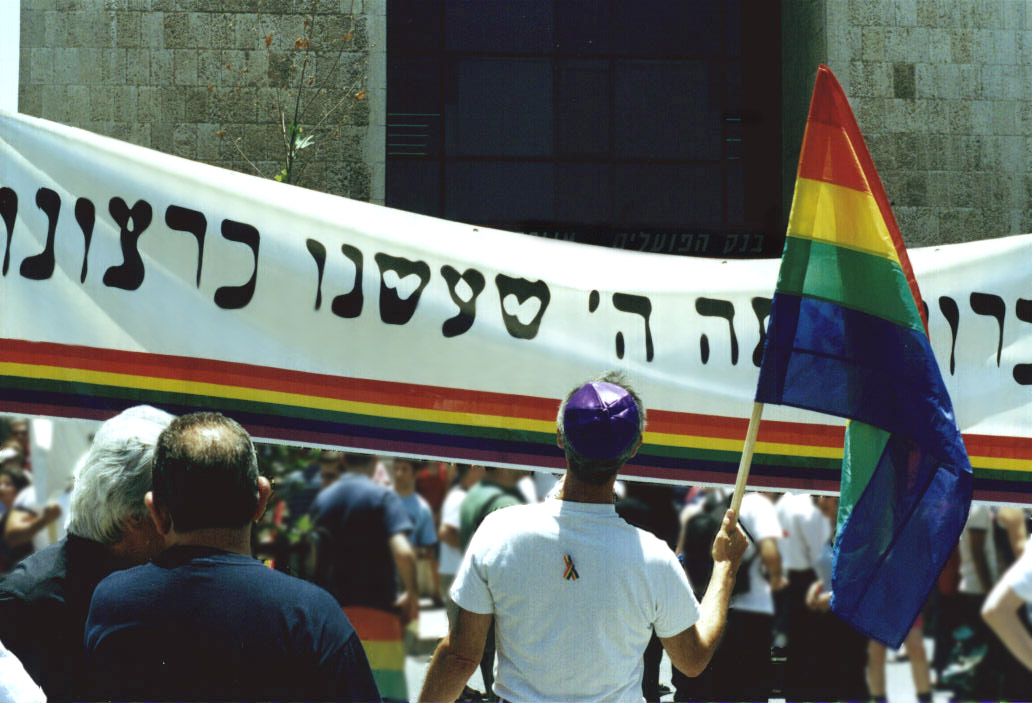 Scanned photo from the first gay pride parade held in Jerusalem in 2002. Banner reads "Blessed are you god who made us as per his will," a slight variation on a blessing religious women say in the morning.